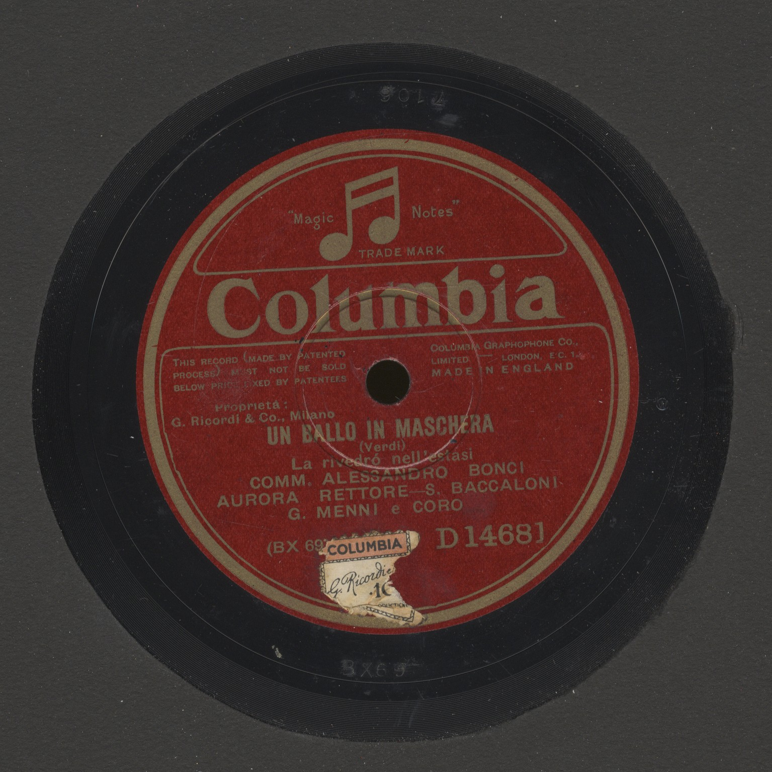 Image of a 78rpm of an aria from Giuseppe Verdi's Un ballo in maschera, recorded by Columbia Records